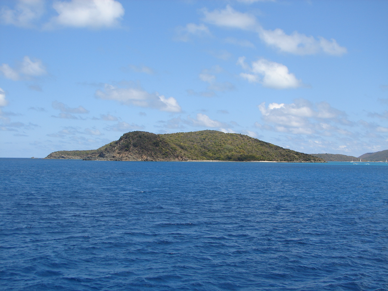 Mosquito Island, British Virgin Islands